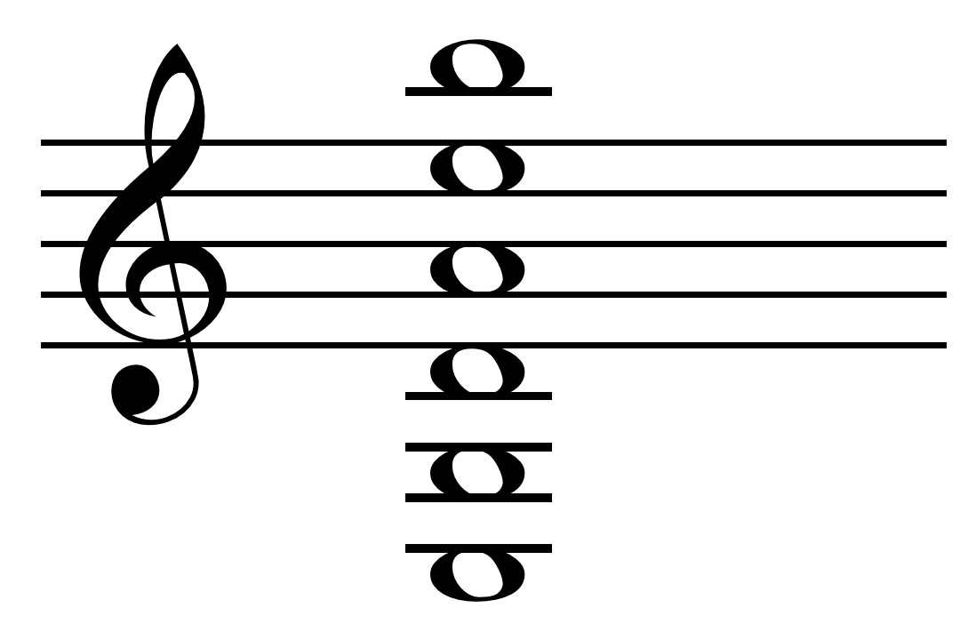 Created by Hyacinth (talk) 21:55, 7 May 2010 using Sibelius 5.